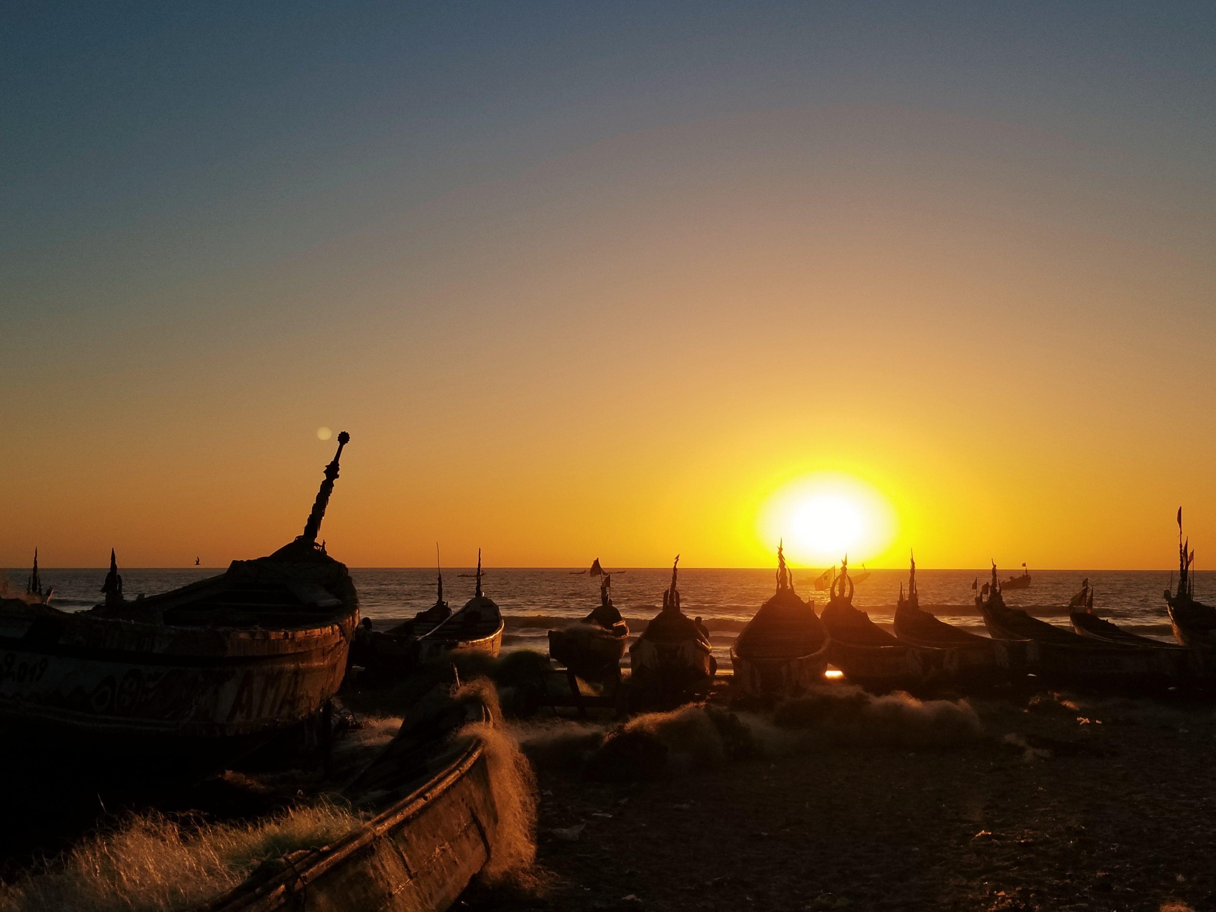 Cap Skirring is a small village in Casamance region very popular among tourists